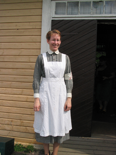 A Lotta Svärd -organisation uniform